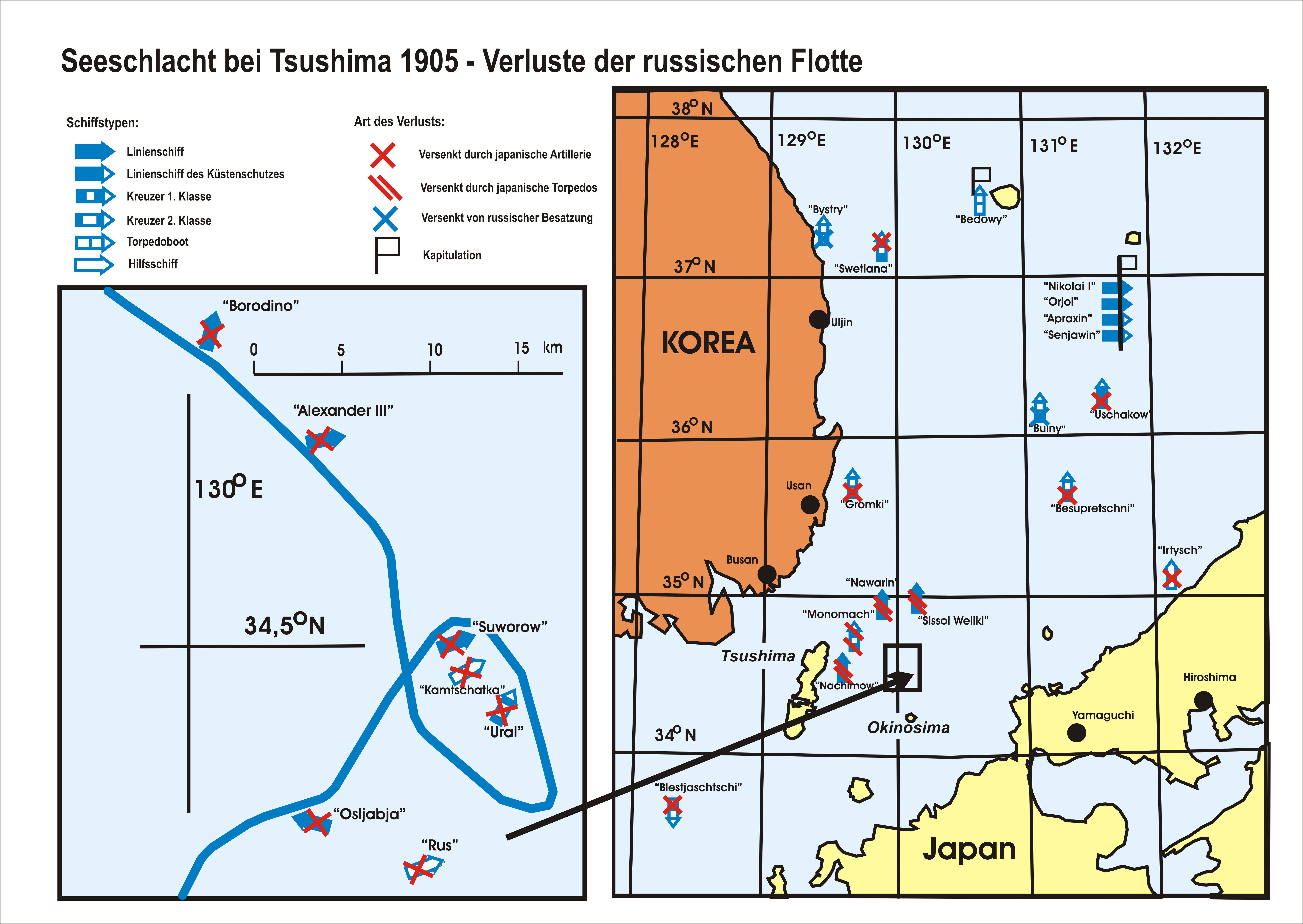 Losses of Russian fleet during the Tsushima sea battle 1905